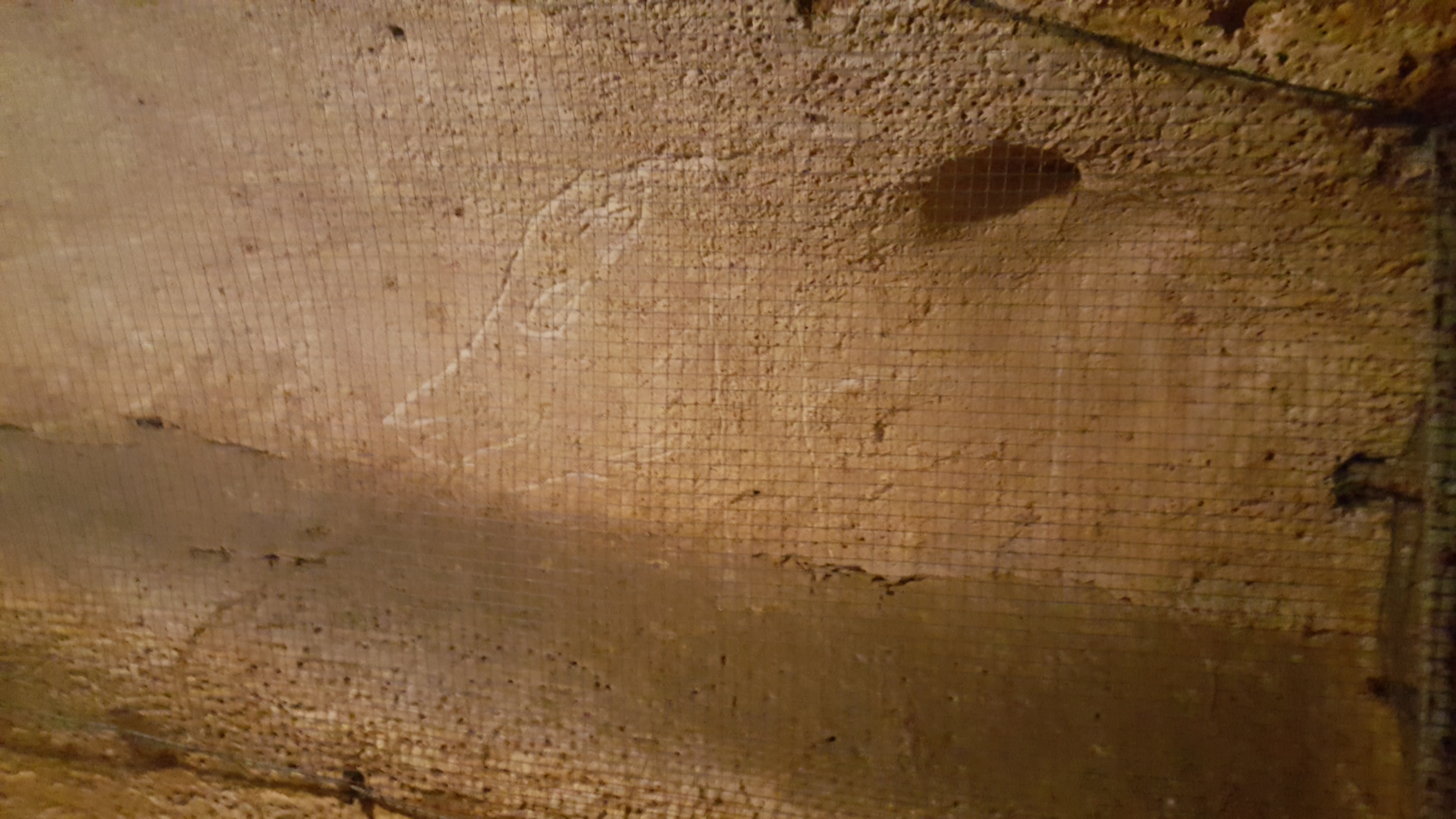 Cave Paintings